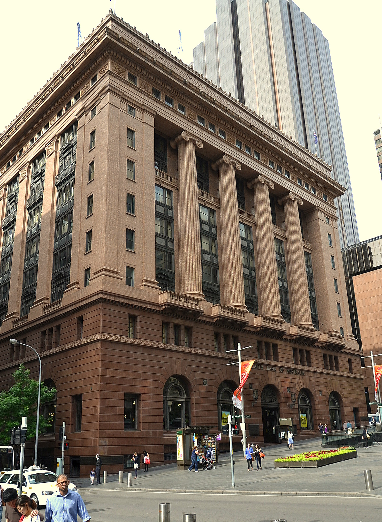 CBA, Sydney